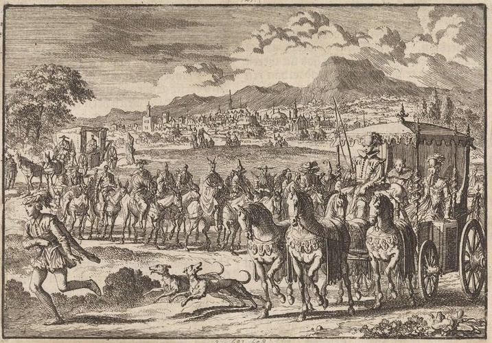 Don Pedro, regent of Portugal, goes after his marriage to Mary, Duchess of Aumale, Lisbon Alcantara, Jan Luyken, Pieter van der Aa (I), 1698